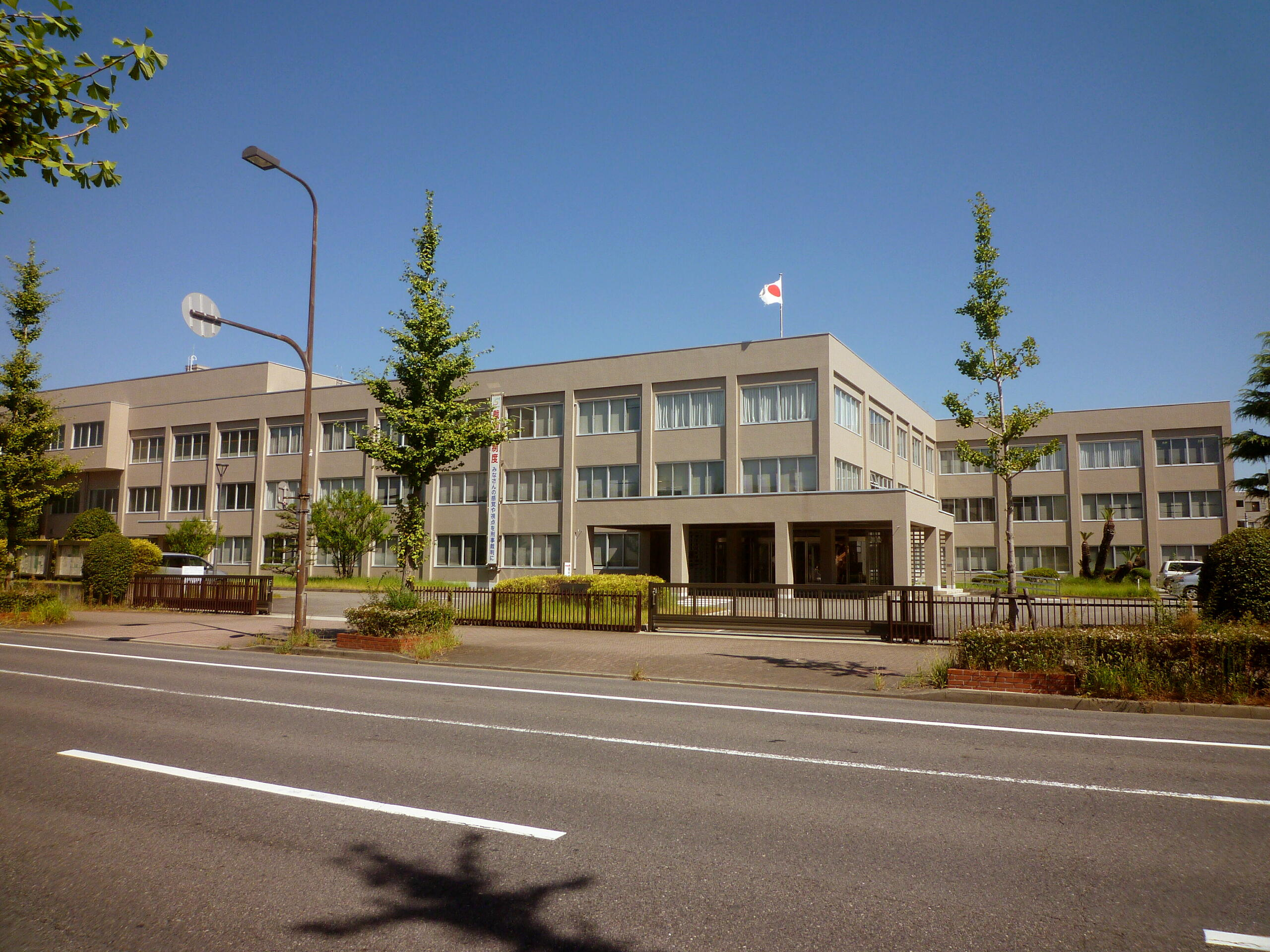 The "Tsu District Court" in Tsu, Mie, Japan.